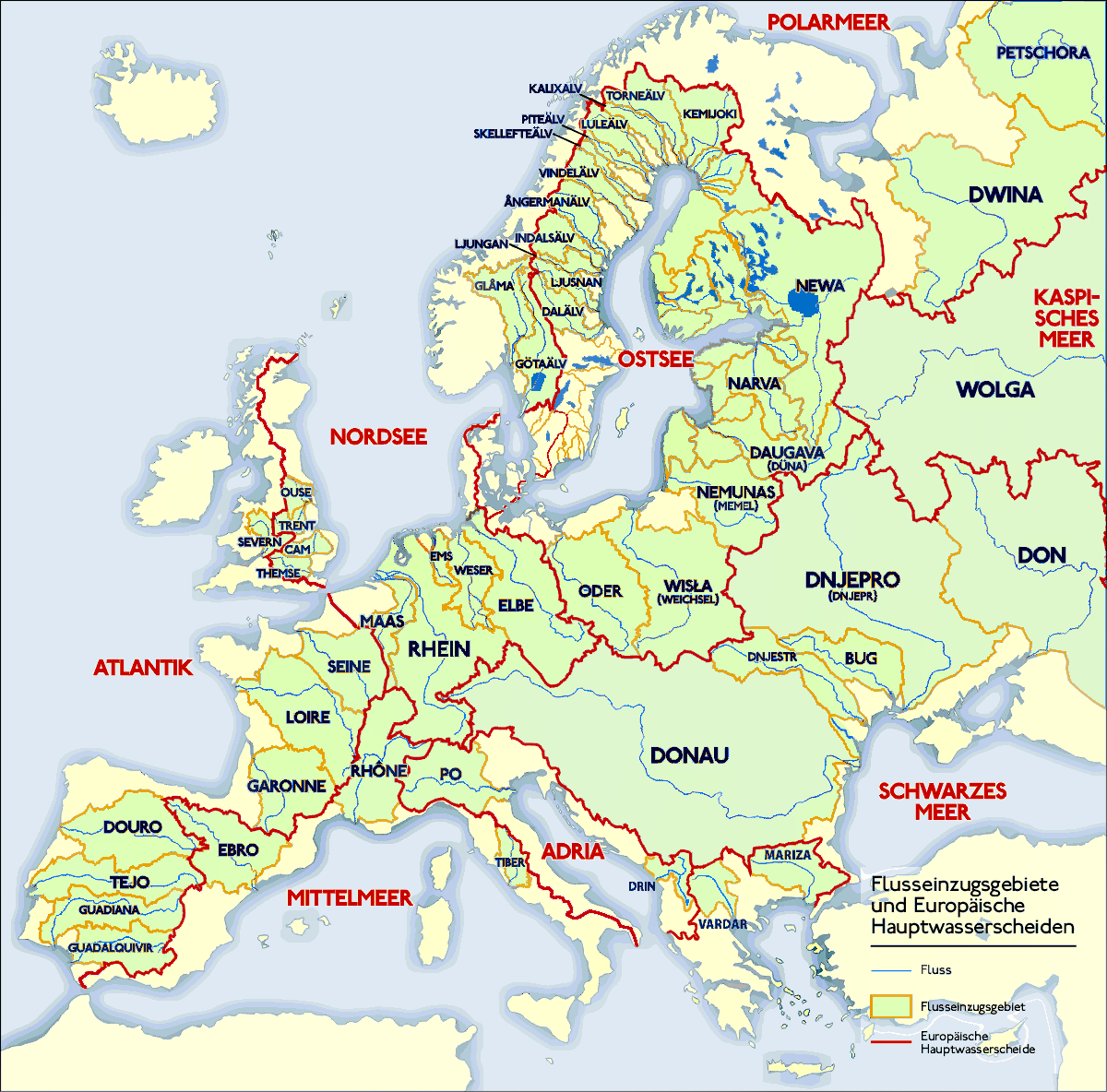 The map shows the European rivers' catchment areas and main watersheds. Chart made on 06/2004 by Sansculotte. The image is released under the Creative Commons Share Alike license for futher use. Reference and sources can be requested from